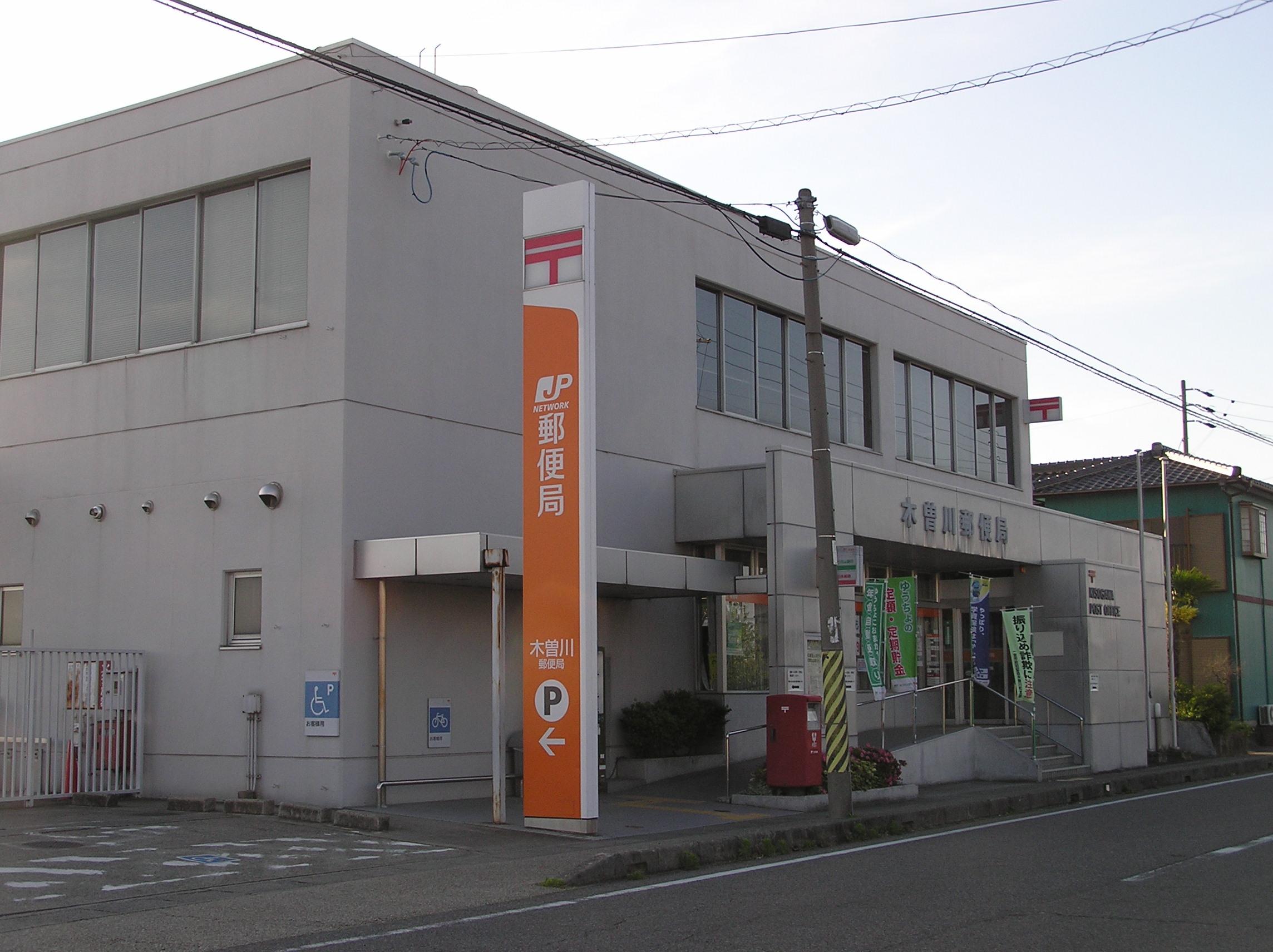 Kisogawa_post_office